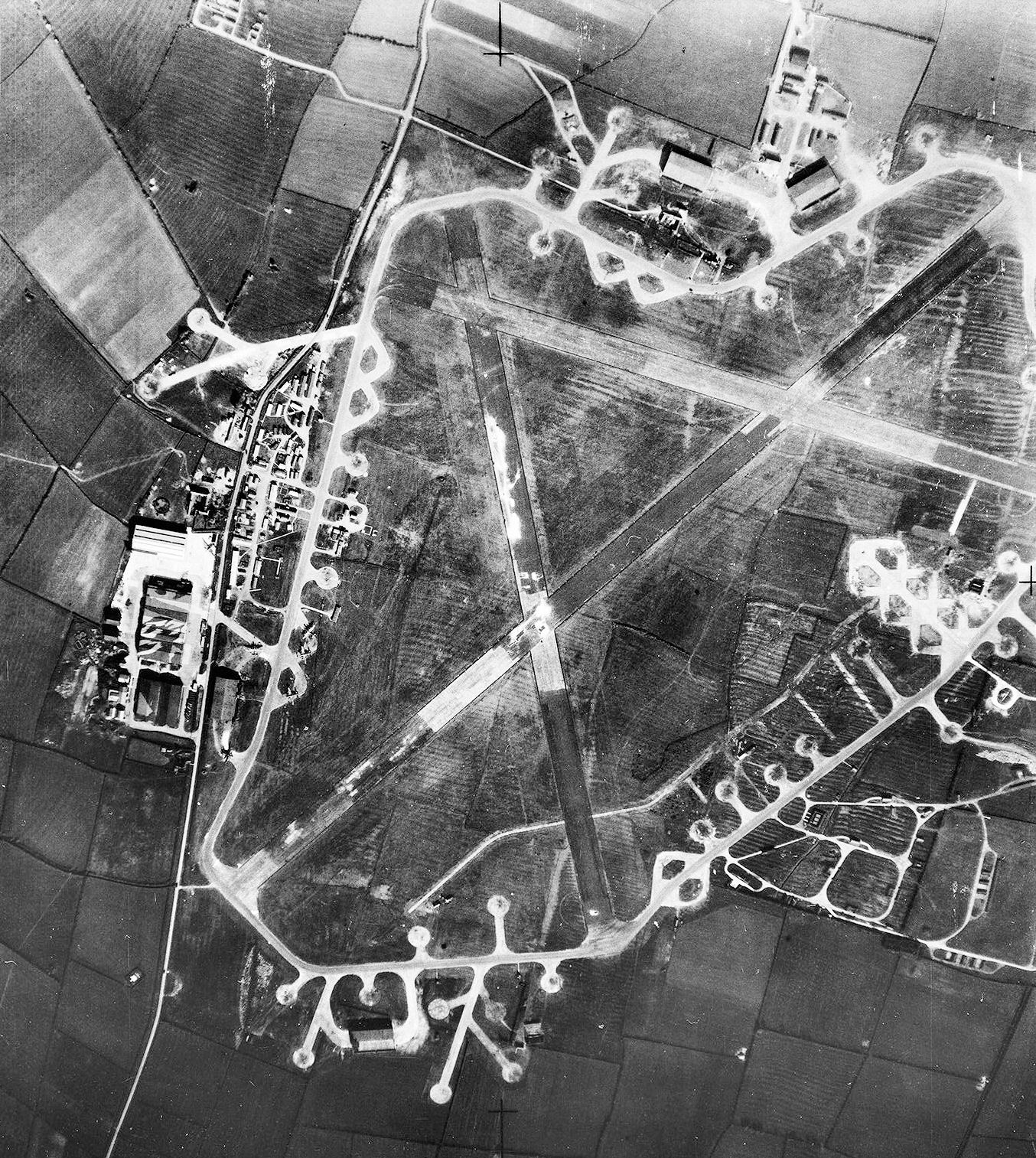 Aerial photograph of Langar airfield looking north north west, with the control tower and technical site on the left and the bomb dump to the right, 17 April 1945. Photograph taken by No. 309 Fighter Training Unit, sortie number RAF/106G/LA/226. English Heritage (RAF Photography).